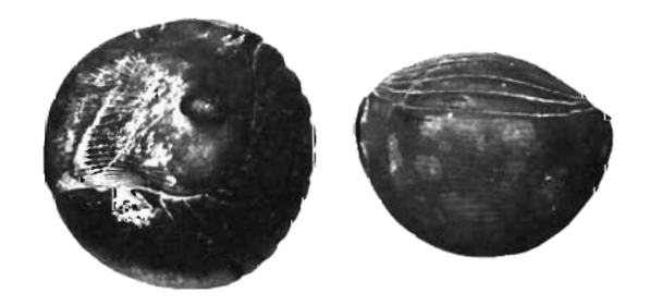 Enrolled fossil of the trilobite Bumastus beckeri